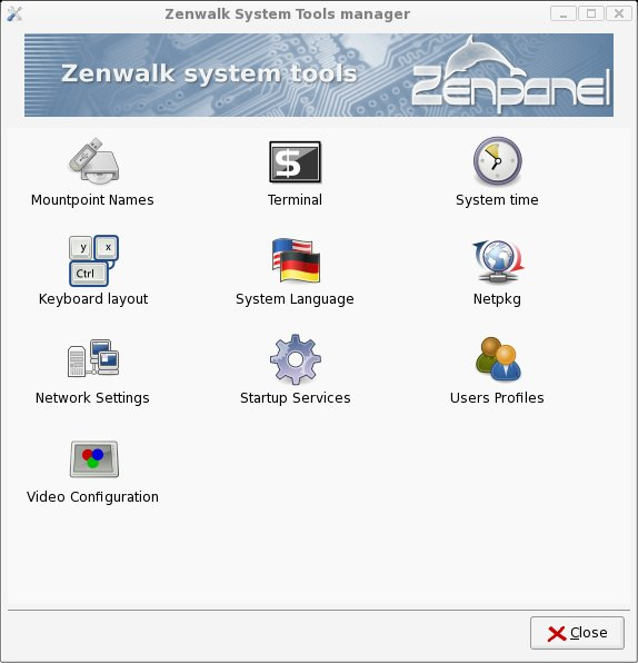 Zenpanel, a system configuration utility included in Zenwalk Linux.